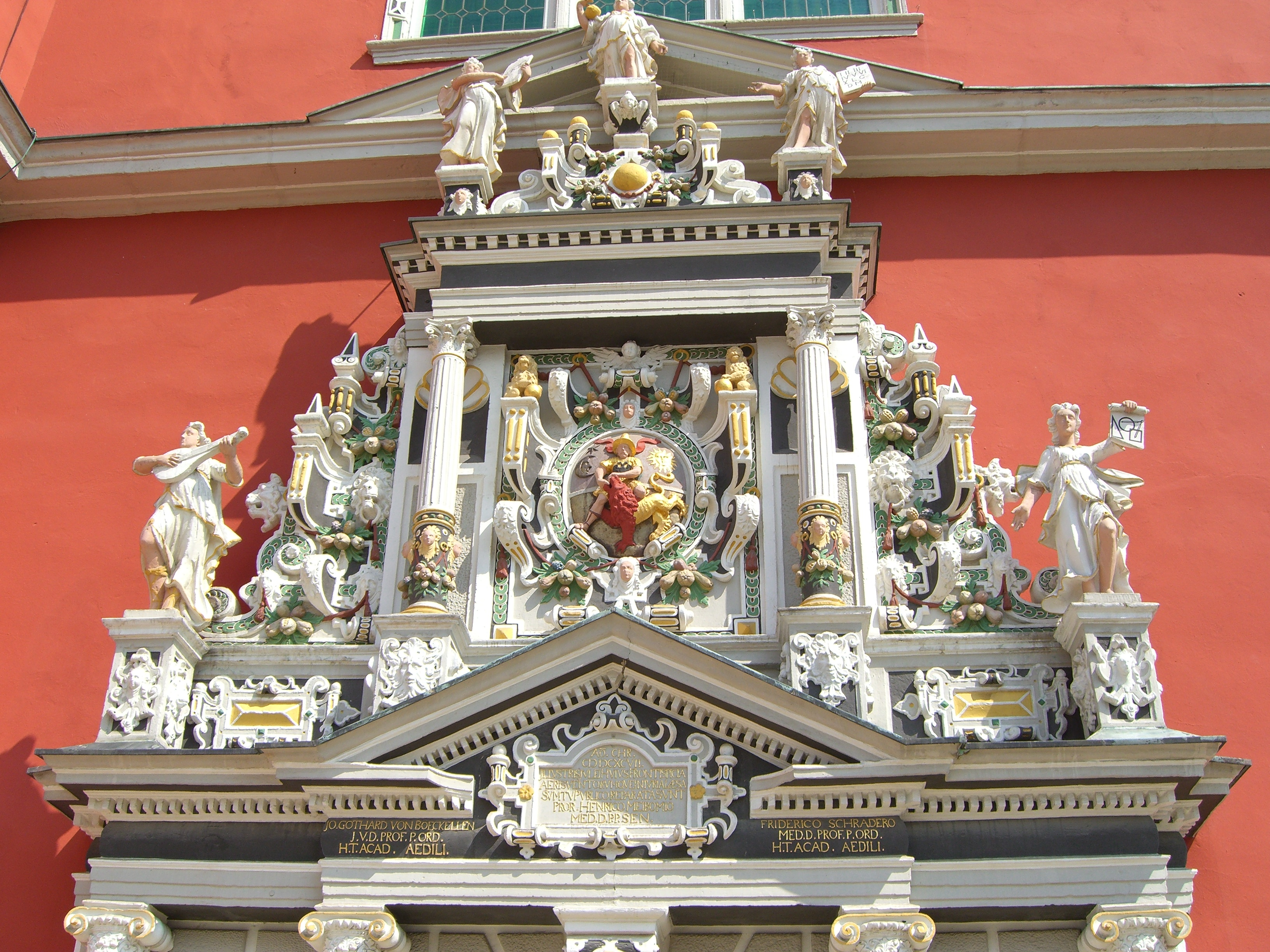 A decoration of the main portal with university seal at the Juleum in Helmstedt. Additionally five statues of the seven liberal arts: “Astronomy” palming a firmament (on top of the portal), “Grammar” palming a slate pencil and a slate board (at the left in the second row), “Arithmetics” palming a board with numbers (on the right in the second row), “Music” palming a lute (on the left in the bottom row), “Geometry” palming a compasses and a roll (on the right in the bottom row). “astronomy”, “grammar”, “arithmetic”, “music” and “geometry”. There are absent “Rhetoric” and “Dialectic” (“Logic”).